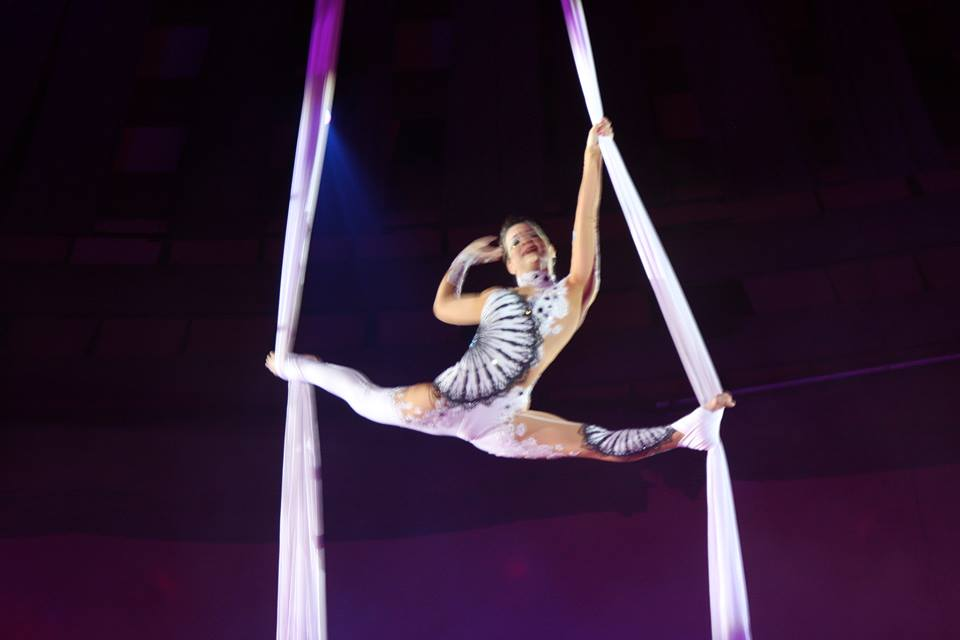 Lisandra Cros in 10th International Circus Festival of Budapest.